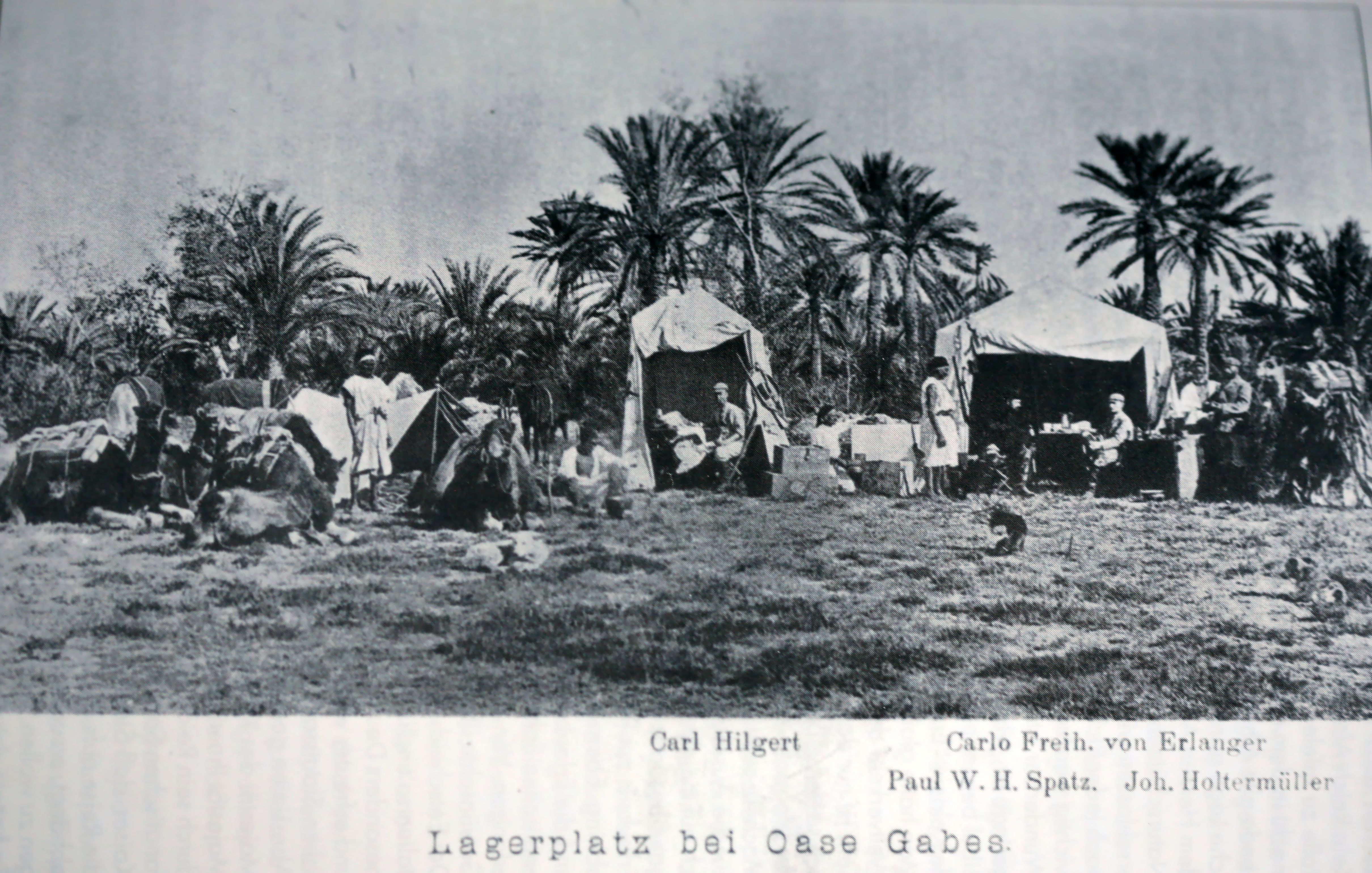 Erlanger Expedition in Tunesia